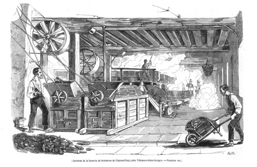 Engraving depicting the inside of a French sugar beet mill c. 1843. Published in French magazine L'Ilustration Journal Universel, 13 May 1843 issue.